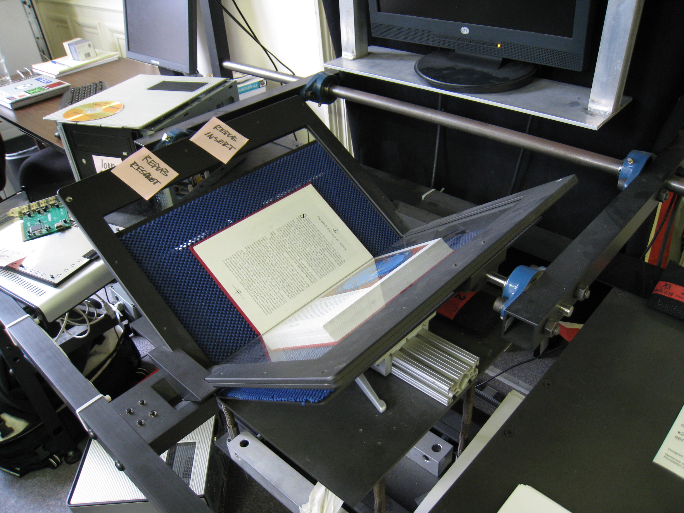 A book scanner at the Internet Archive headquarters in San Francisco, California.